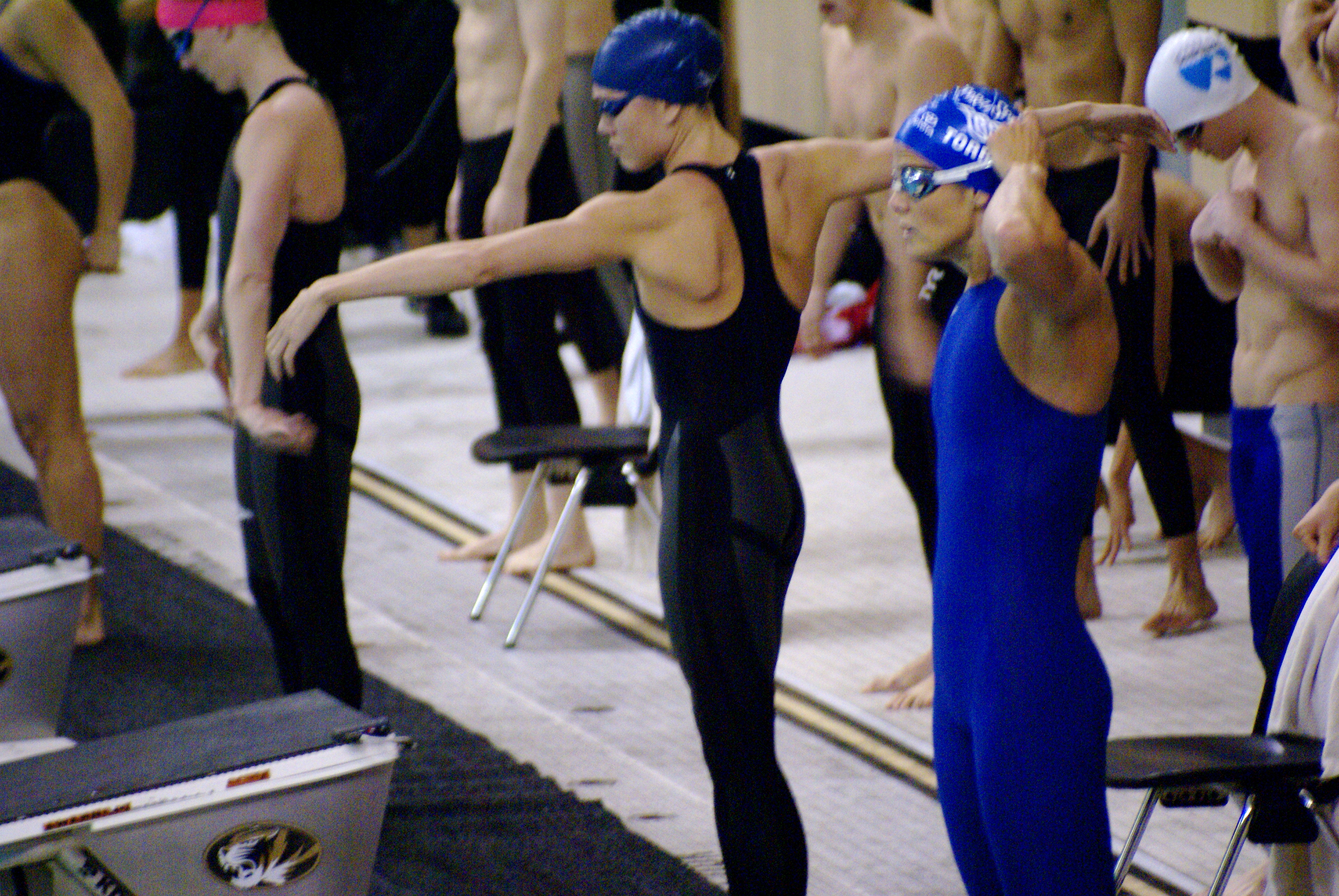 Photo of American swimmers Natalie Coughlin and Dara Torres at the Missouri Grand Prix